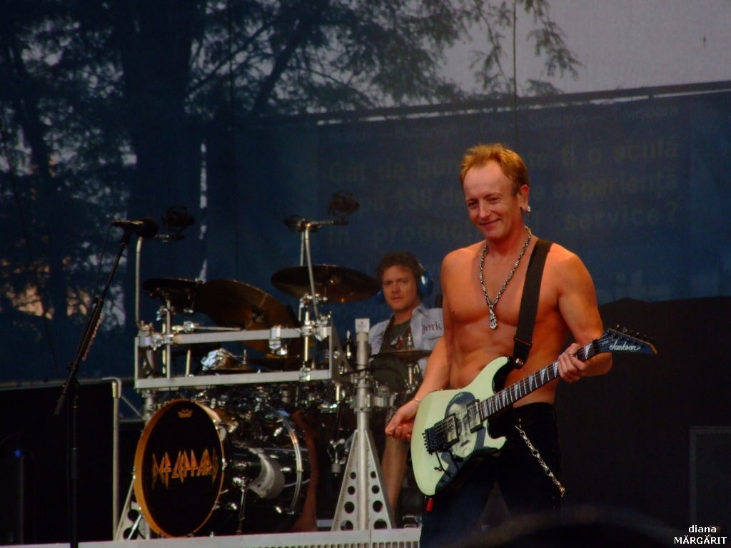 Phil Collen (from Def Leppard) [Fujifilm FinePix S6500fd]